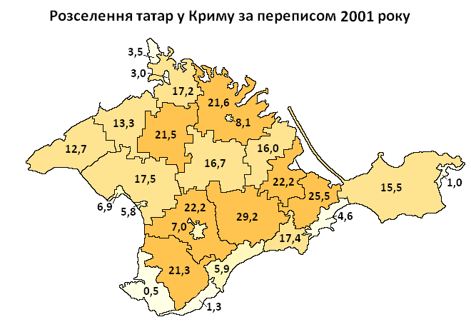 Percentage of Crimean tatars in Crimea according to 2001 census